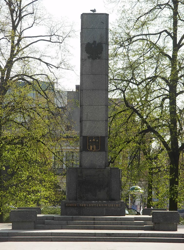 Freedom monument in Bydgoszcz